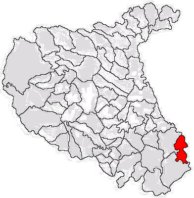 Map of limits of commune in Vrancea County